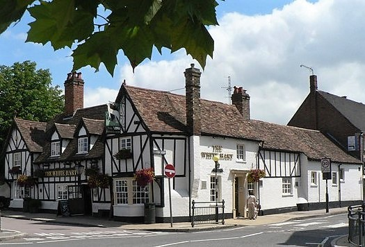 White Hart, Biggleswade. Photographed in 2008.